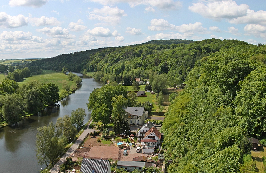 This image shows the Mulde river and the Rochlitzer Berg (348 metres) seen from Rochlitz Palace.